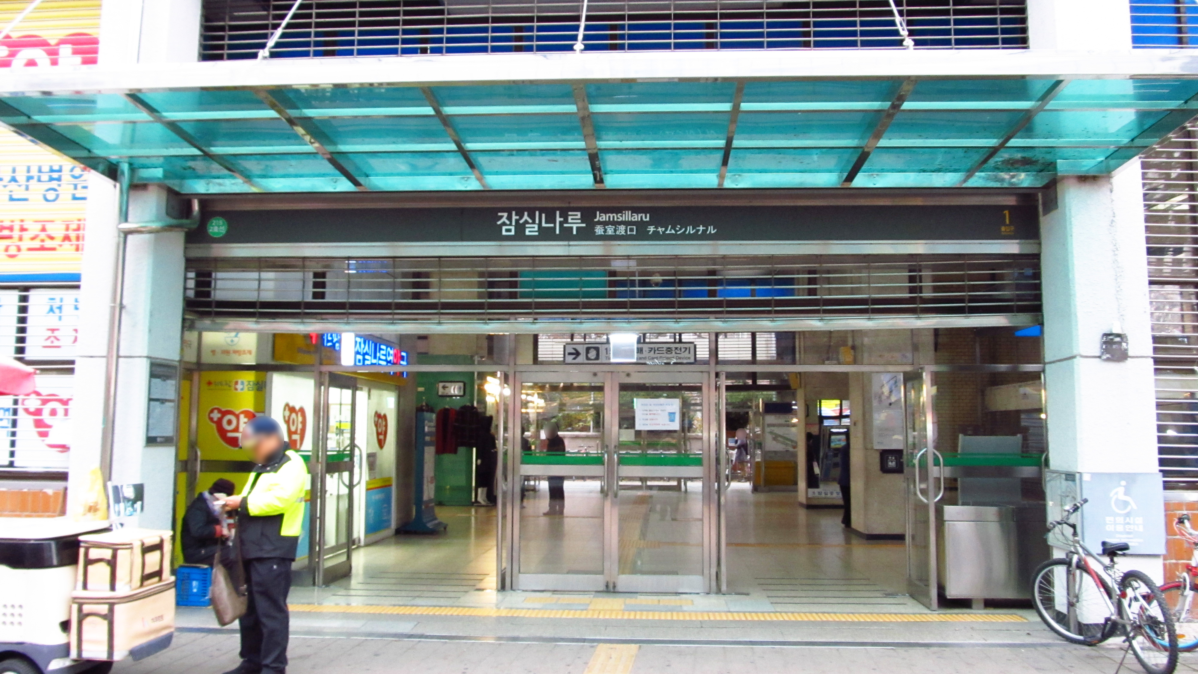 The no.1 entrance to Jamsillaru Station on the Seoul Metro Line 2 in Songpa-gu, Seoul, Republic of Korea(South Korea)